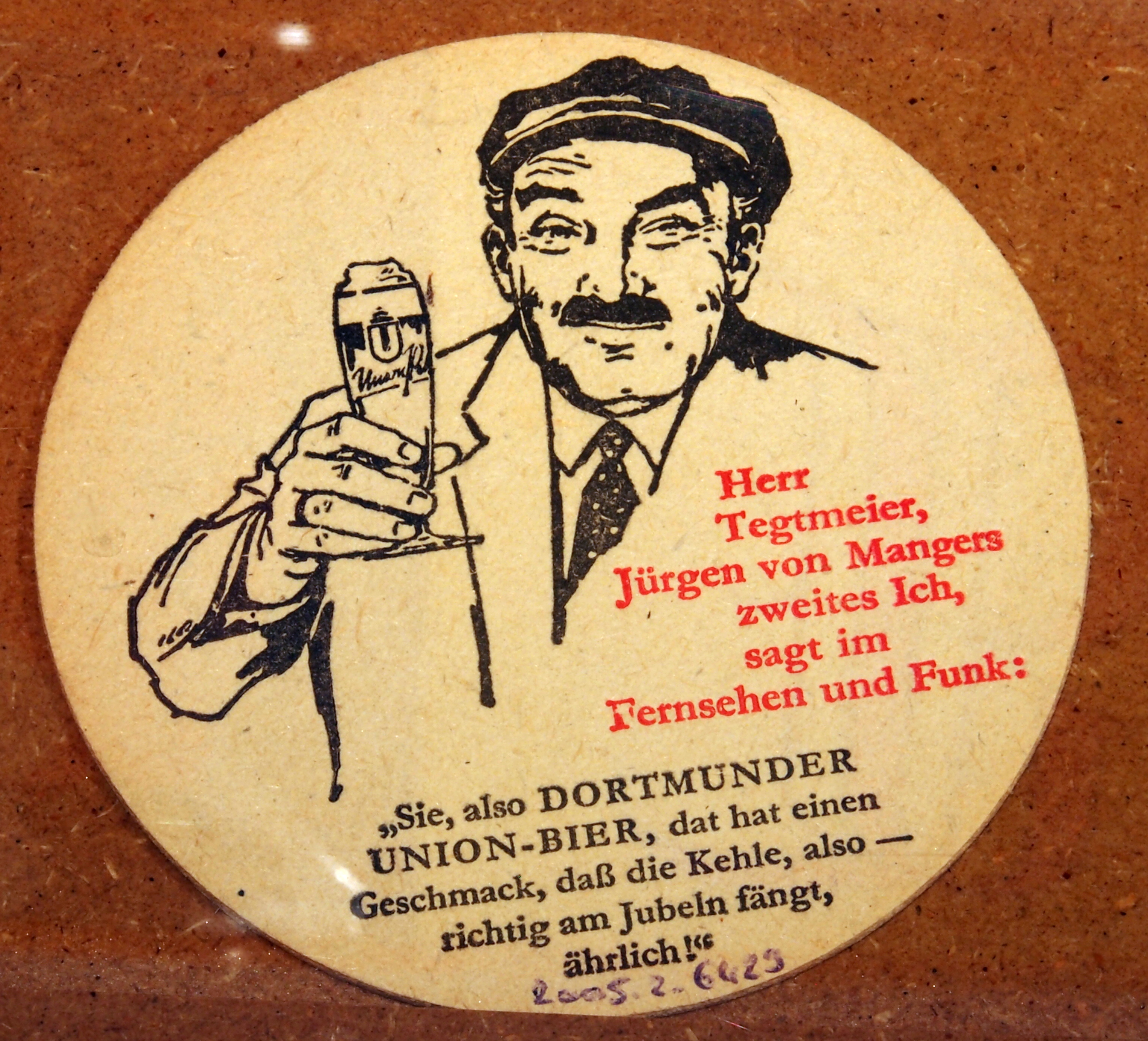 Dortmunder Union Bier. (Photographed through glass.)